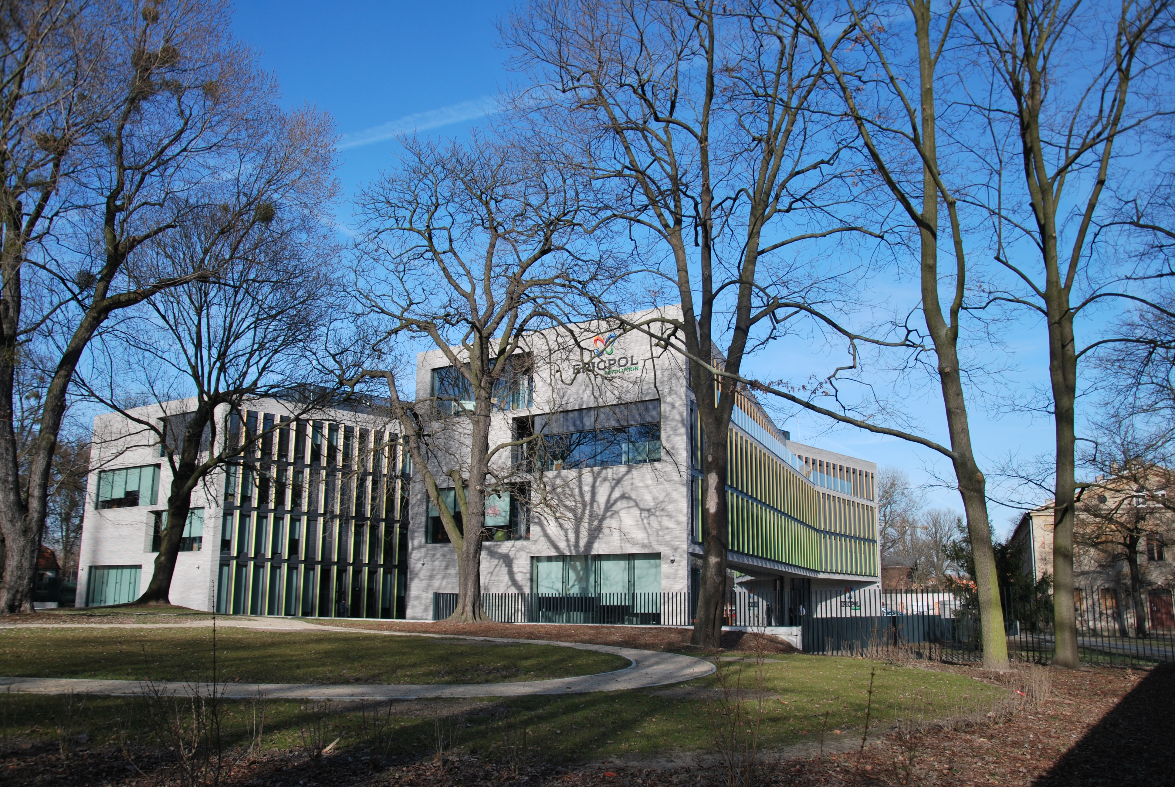 IT company Ericpol headquarter, Łódź 175 Sienkiewicza Street